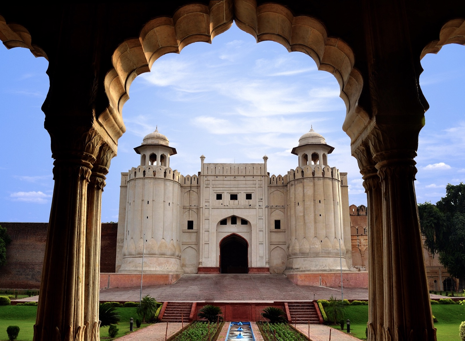 Lahore Fort complex (including Moti Masjid, Naulakha Pavilion, Sheesh Mahal and others) This is a photo of a monument in Pakistan identified as the PB-67